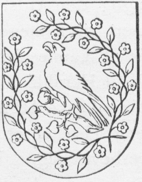 Coat of arms of Frederikssund, a chartered town in Denmark. Illustration from the article Om danske By- og Herredsvaaben written by Anders Thiset and published in Tidsskrift for Kunstindustri 1893-1894.